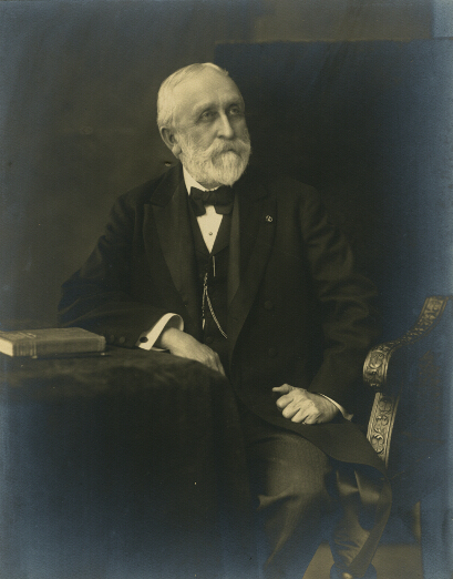 Photograph held by Robert W. Woodruff Library, Atlanta University Center, Atlanta University Photographs, box 1, folder "Bumstead, Horace."